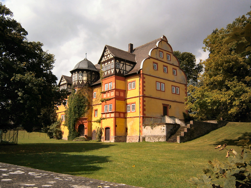 Geyso Castle